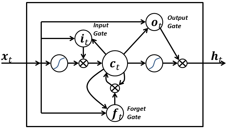 Long short-term memory units.